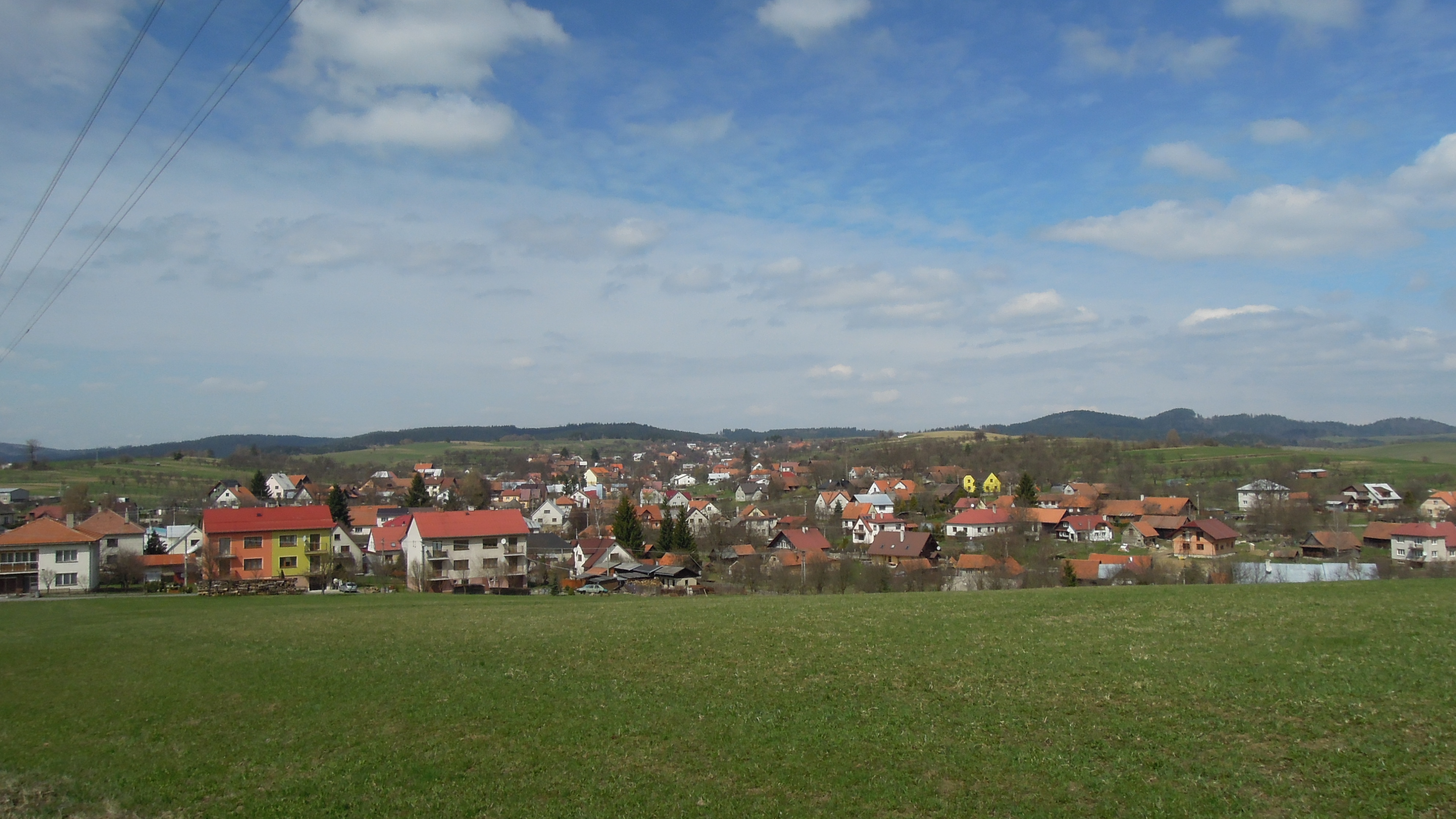 View of Lačnov, Vsetín District, Zlín Region, Czech Republic